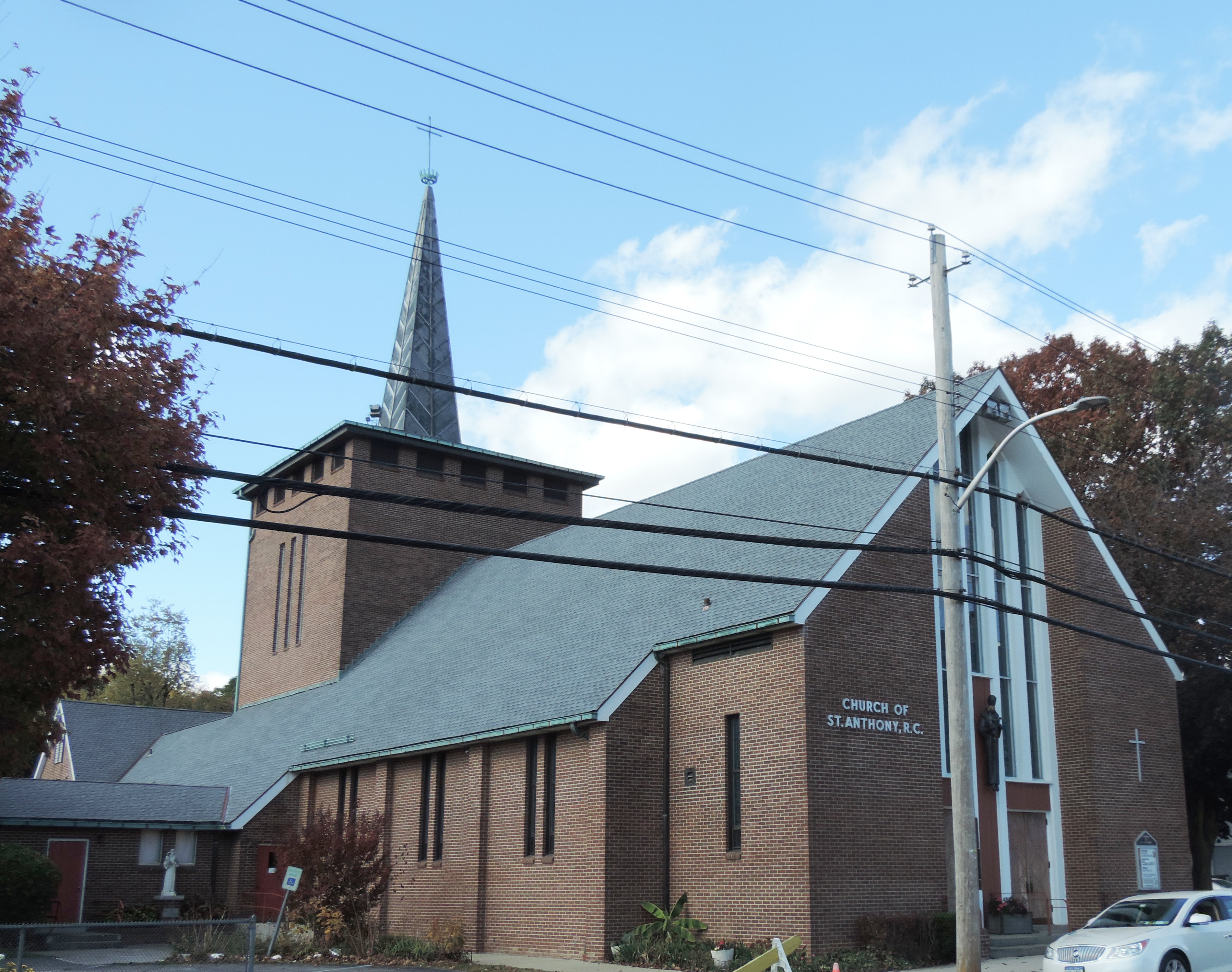 Looking northwest at church on a mostly sunny afternoon.